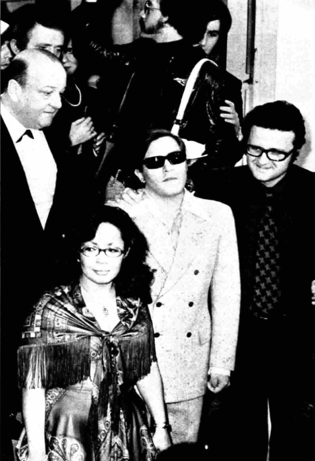 Gianni Ravera, Josè Feliciano and his wife and Jimmy Fontana in Sanremo for the 1971 Sanremo Music Festival